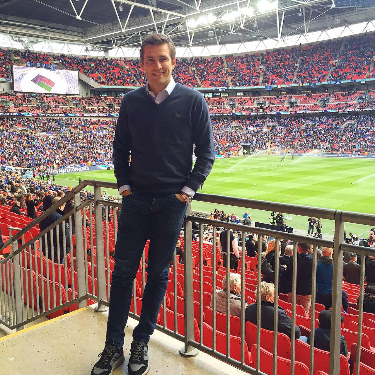 football goalkeeper